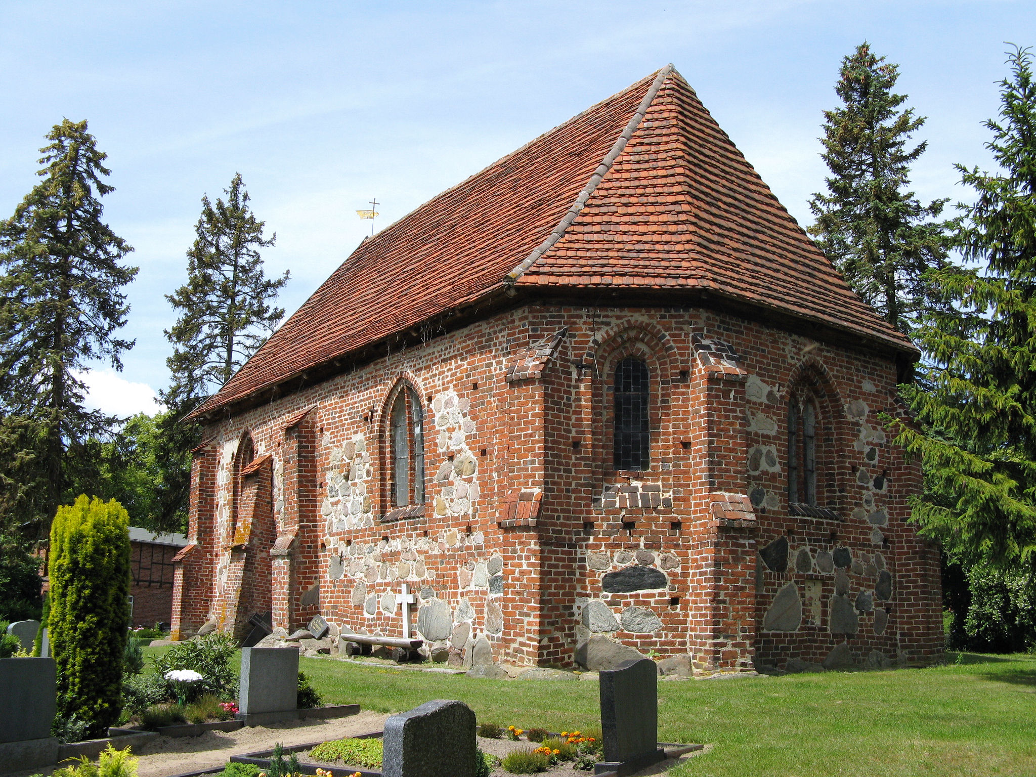 Church in Garwitz, disctrict Parchim, Mecklenburg-Vorpommern, Germany